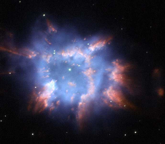 The Hubble Space Telescope captured this beautiful image of NGC 6326, a planetary nebula with glowing wisps of outpouring gas that are lit up by a central star nearing the end of its life. When a star ages and the red giant phase of its life comes to an end, it starts to eject layers of gas from its surface leaving behind a hot and compact white dwarf. Sometimes this ejection results in elegantly symmetric patterns of glowing gas, but NGC 6326 is much less structured. This object is located in the constellation of Ara, the Altar, about 11 000 light-years from Earth. Planetary nebulae are one of the main ways in which elements heavier than hydrogen and helium are dispersed into space after their creation in the hearts of stars. Eventually some of this outflung material may form new stars and planets. The vivid red and blue hues in this image come from the material glowing under the action of the fierce ultraviolet radiation from the still hot central star. This picture was created from images taken using the Hubble Space Telescope’s Wide Field Planetary Camera 2. The red light was captured through a filter letting through the glow from hydrogen gas (F658N). The blue glow comes from ionised oxygen and was recorded through a green filter (F502N). The green layer of the image, which shows the stars well, was taken through a broader yellow filter (F555W). The total exposure times were 1400 s, 360 s and 260 s respectively. The field of view is about 30 arcseconds across.